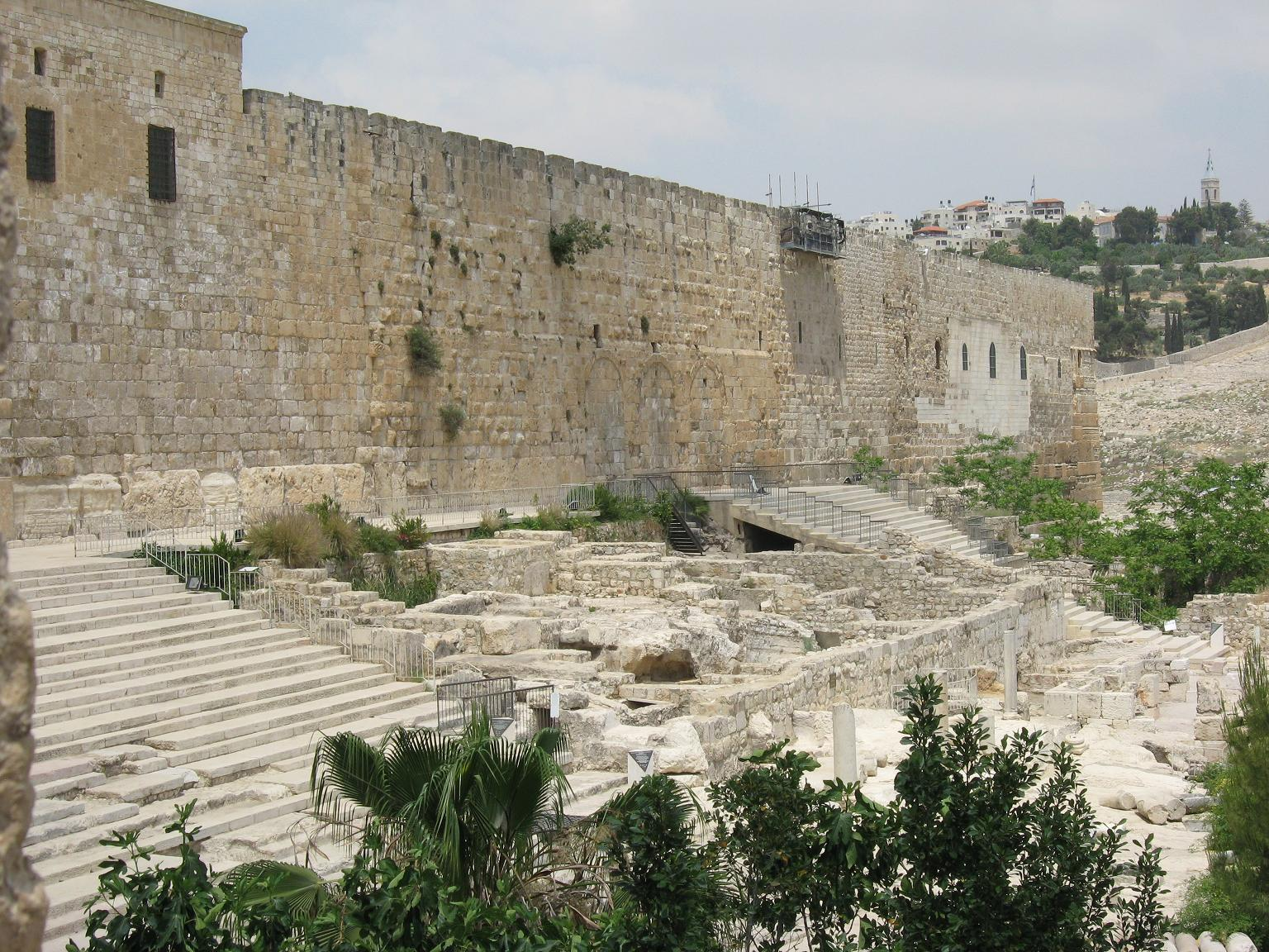 Southern Wall of the Temple Mount enclosure, stairs leading to the triple Hulda gates. To their left, unearthed remains attributed to the Seleucid Acra